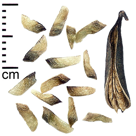 Katsura tree seeds and fruit, Alnarp